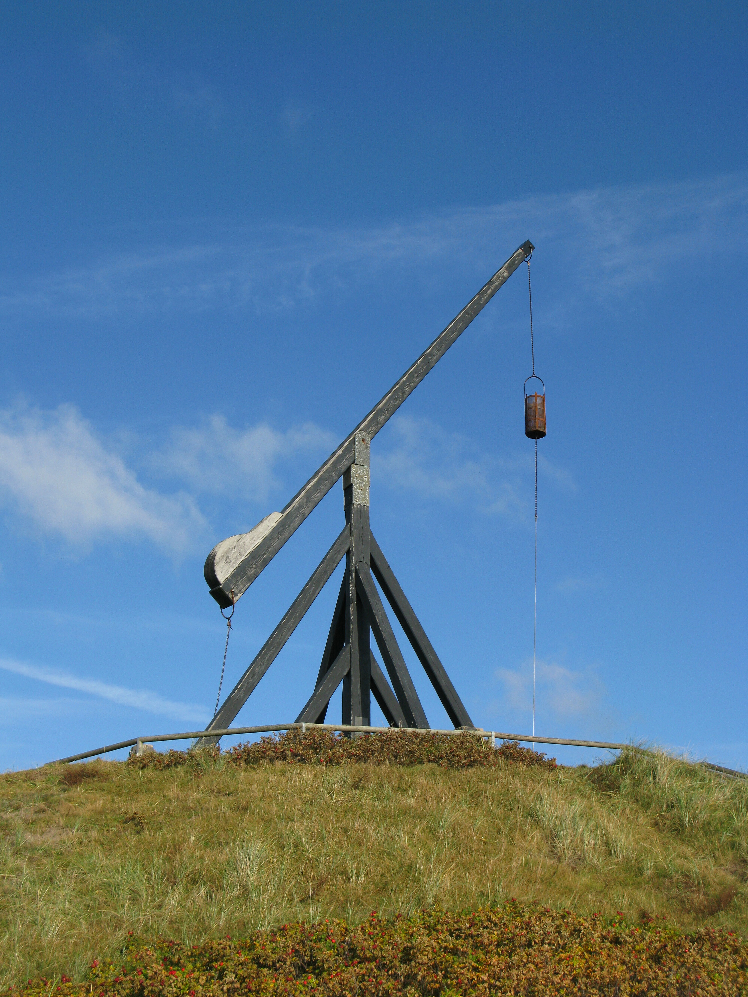 Old navigational light of Skagen, Denmark